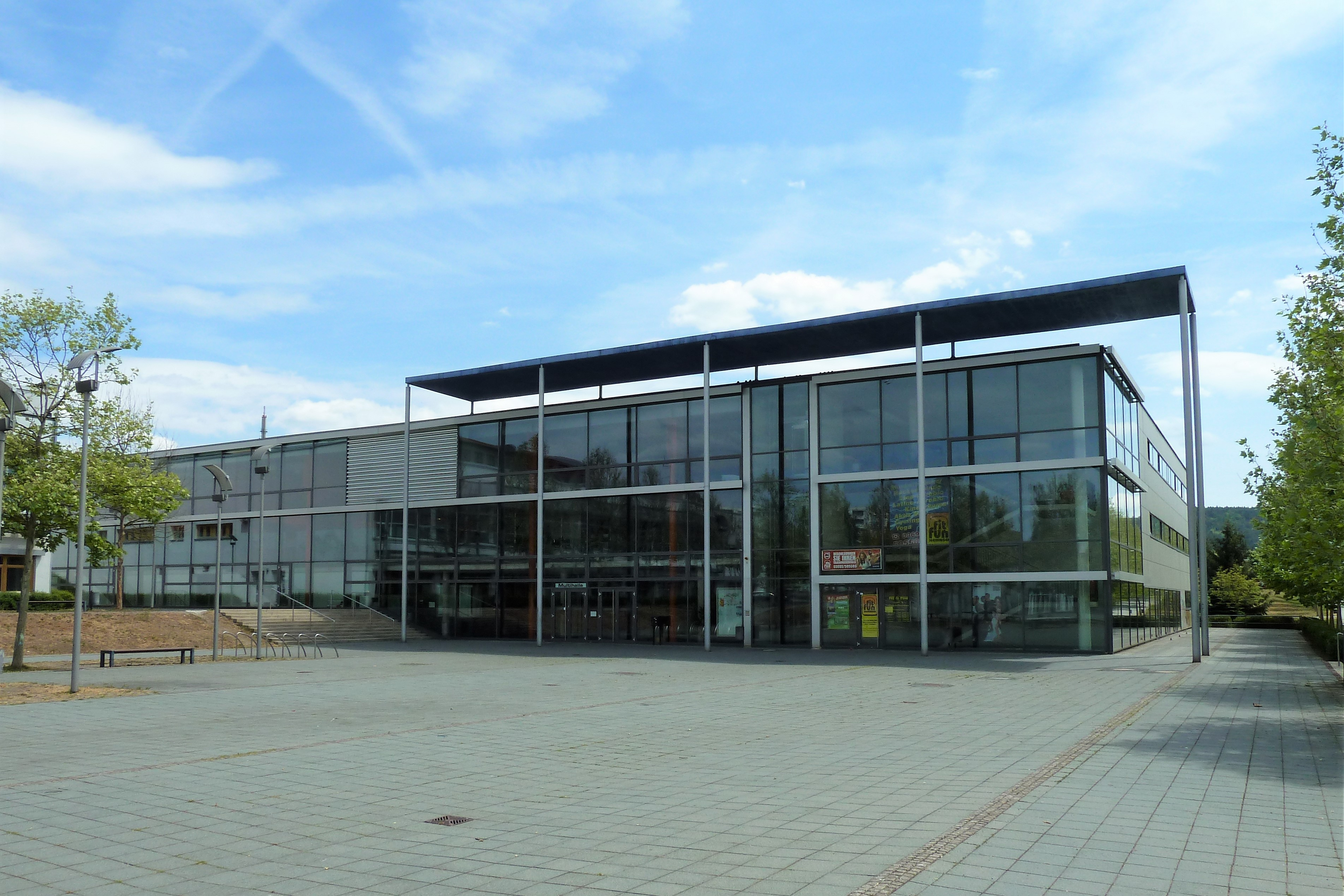 Event and sport hall in city Meiningen, Germany.